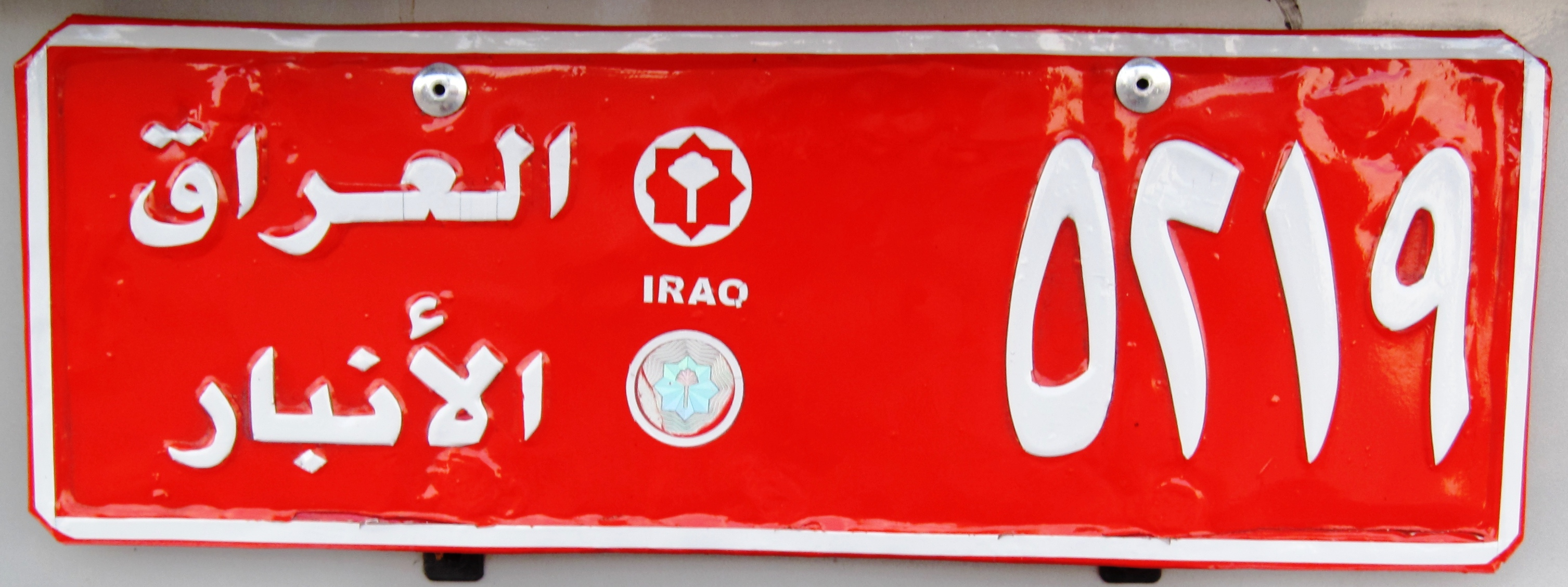 License plate of Iraq, the red colour indicates a registered taxi.